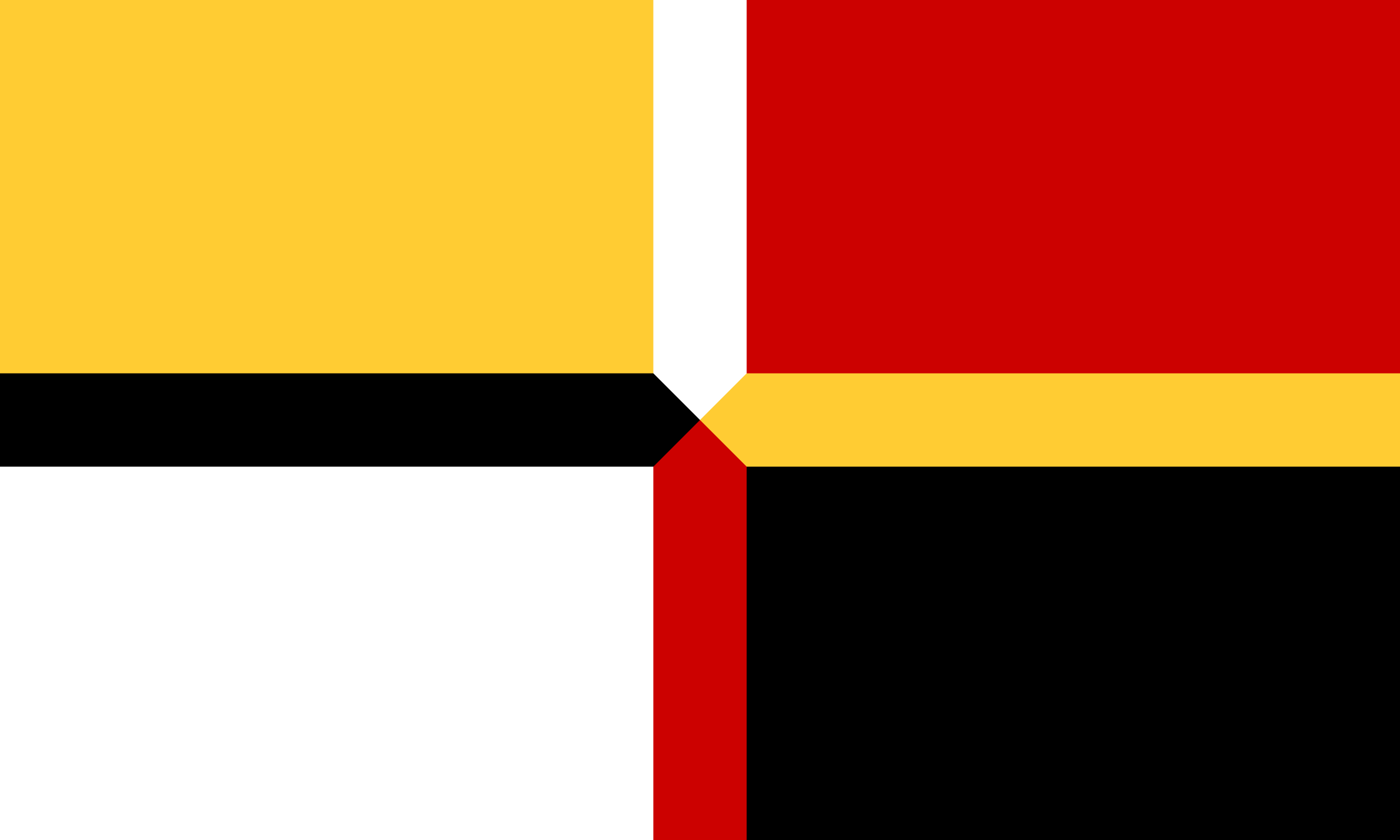 The flag of Frederick County, Maryland, created by James Pearl in 1976. Additional information regarding the flag can be found here.